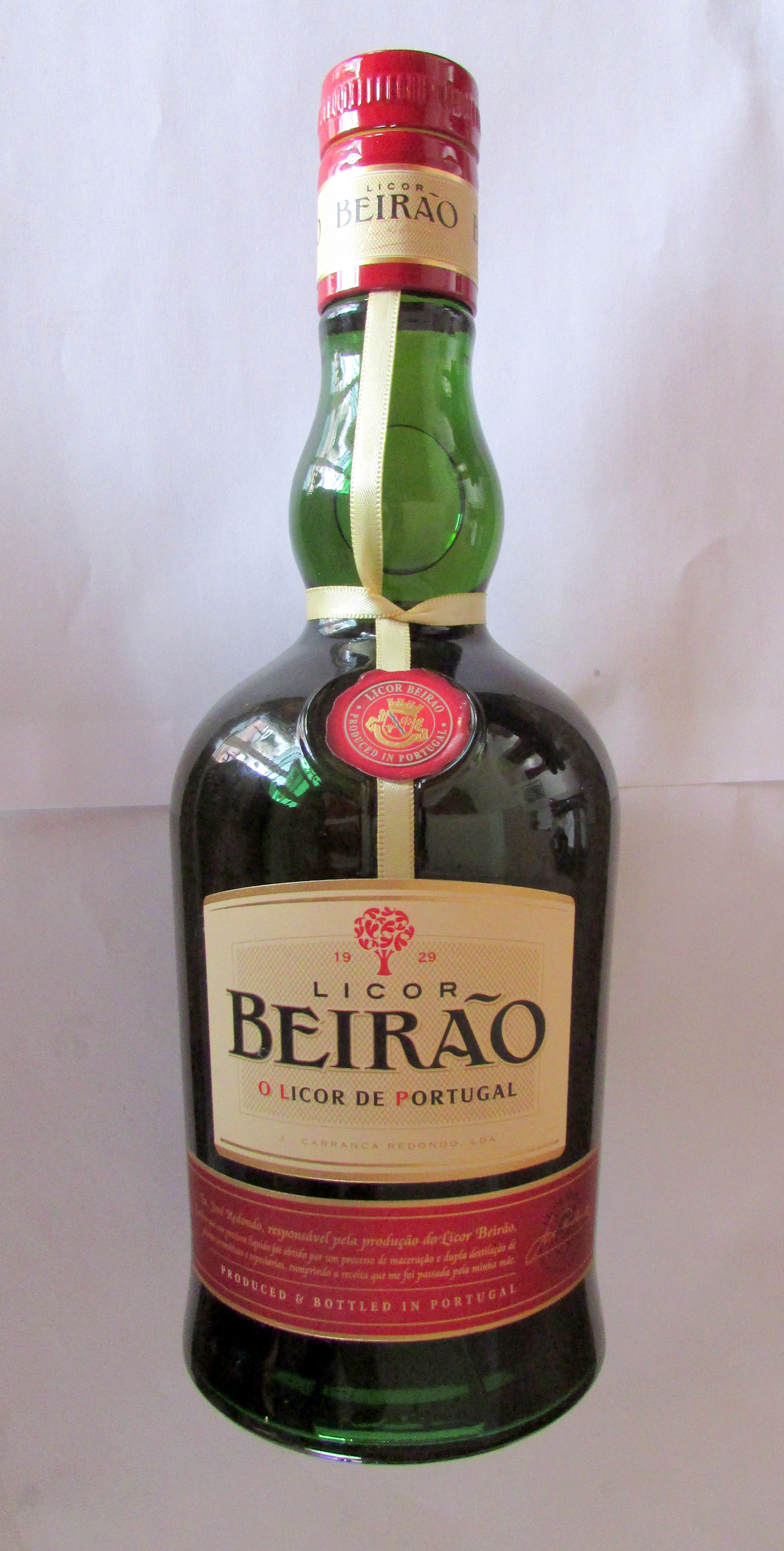 A bottle of the Portuguese liqueur "Licor Beirão", purchased in the city of Albufeira, Algarve, Portugal.